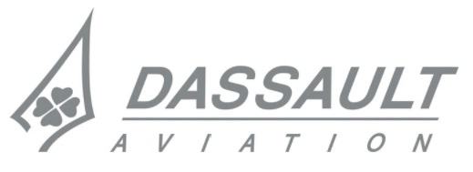 Logo of Dassault Aviation, France